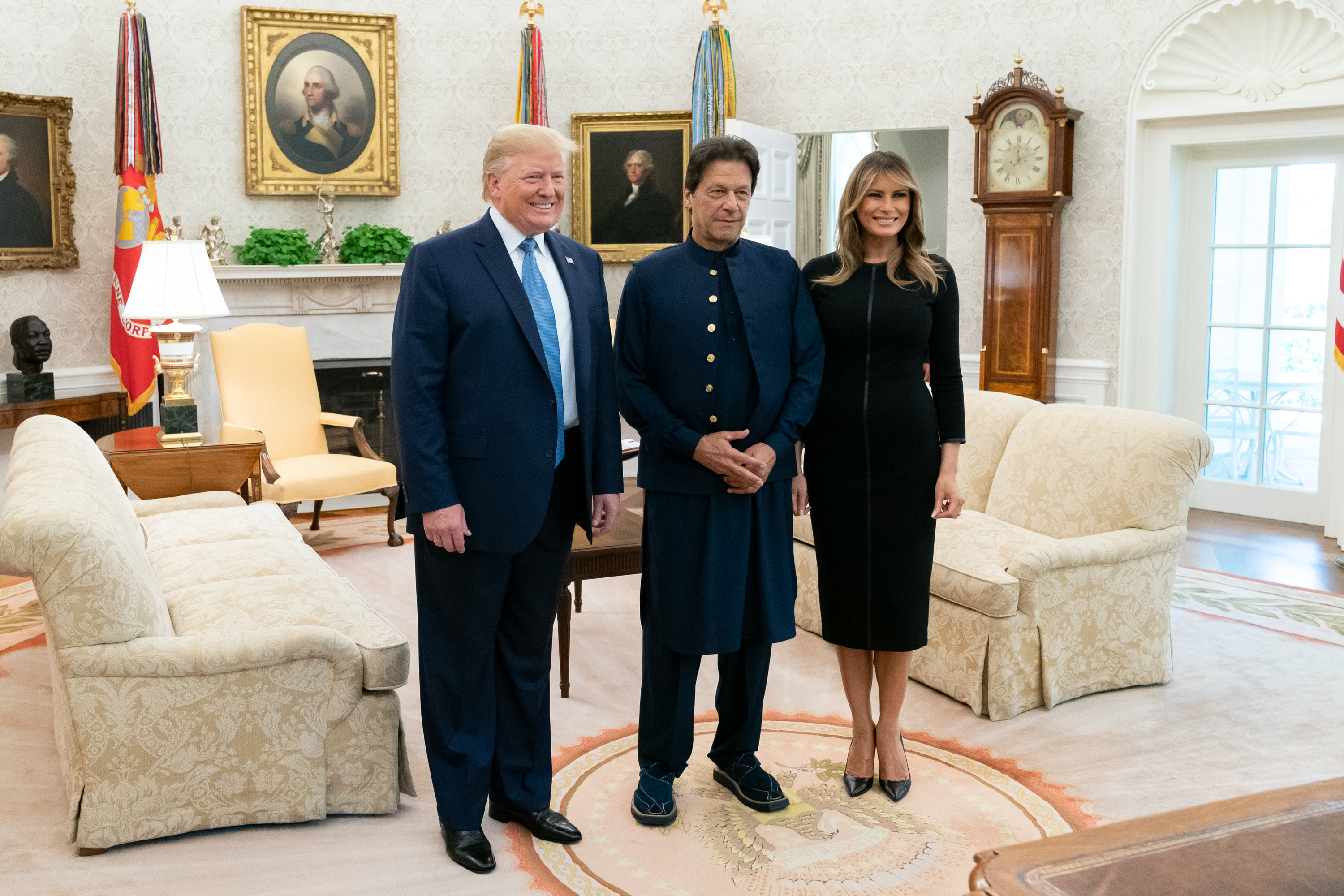 President Donald J. Trump and First Lady Melania Trump pose for a photo with the Prime Minister of the Islamic Republic of Pakistan Imran Khan Monday, July 22, 2019, in the Oval Office of the White House. (Official White House Photo by Andrea Hanks)